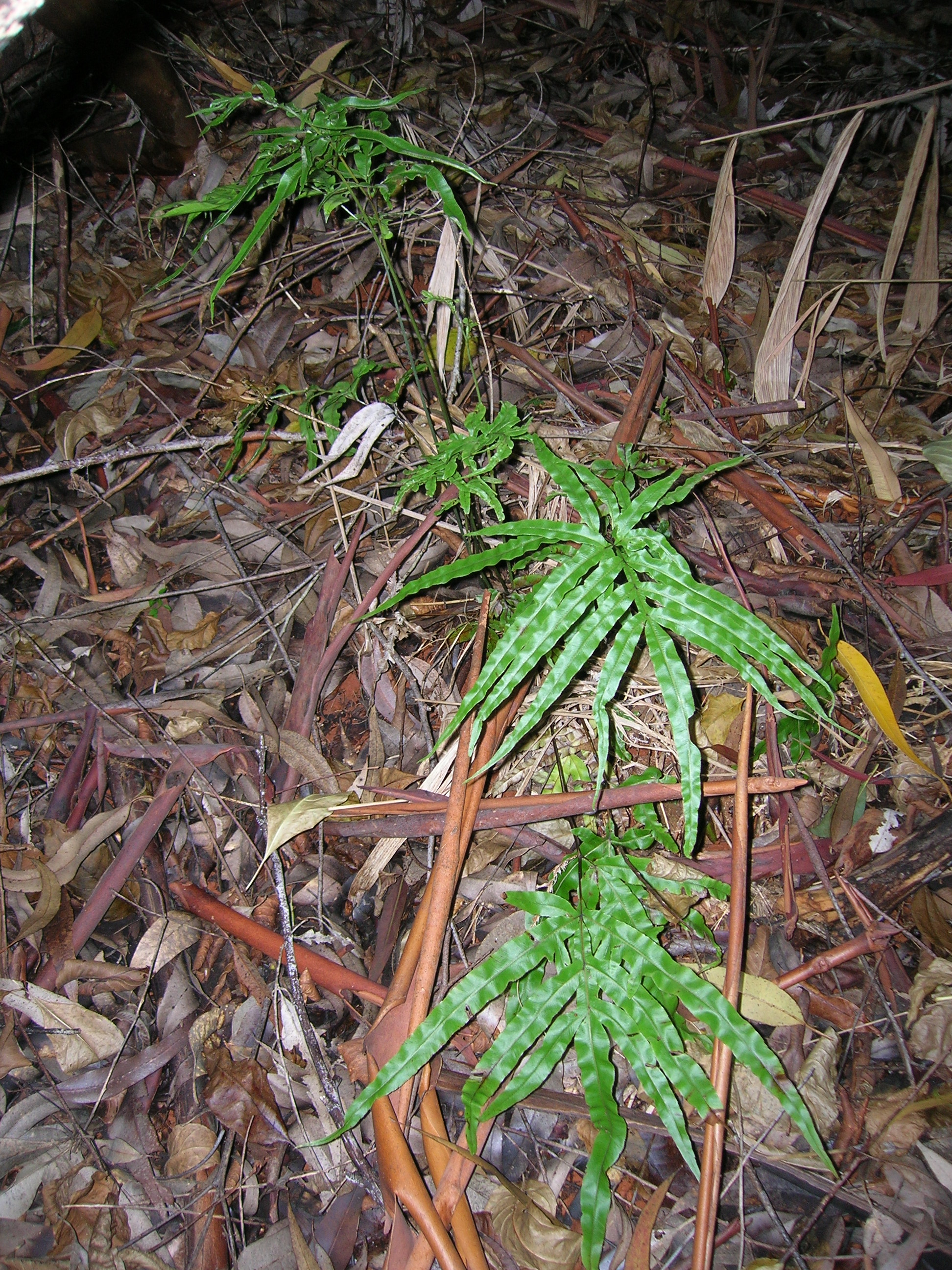 Pteris hillebrandii (habit). Location: Maui, Makwao Forest Reserve